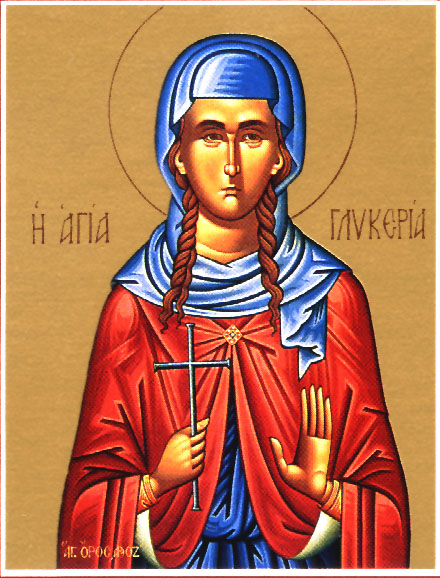 St.Glyceria (ortodox icon)